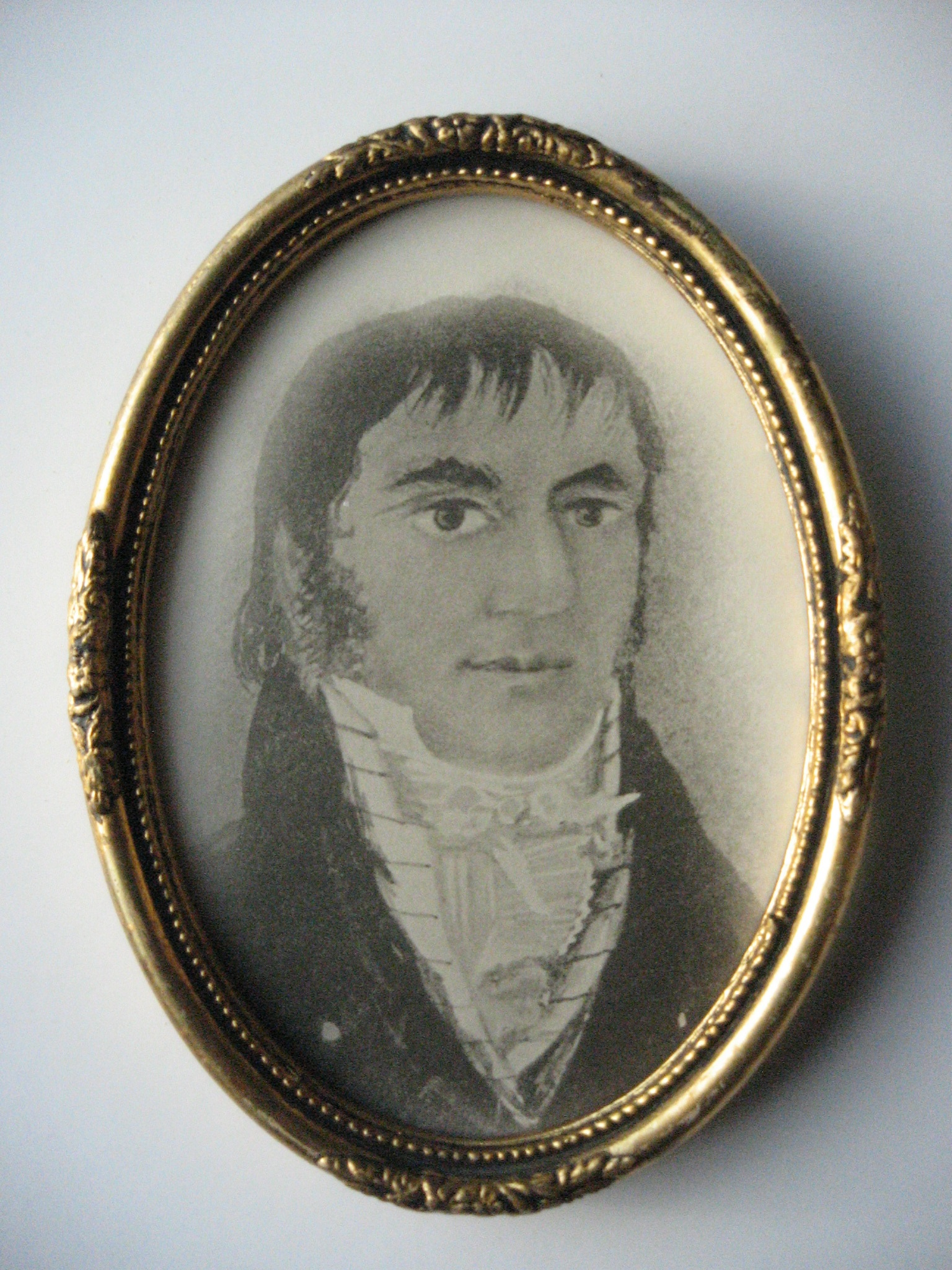 Portrait, by anonymous artist, of Arent Solem (AKA Arnt Solem); Norwegian farmer, merchant, follower of Hans Nielsen Hauge, married to Randi Solem